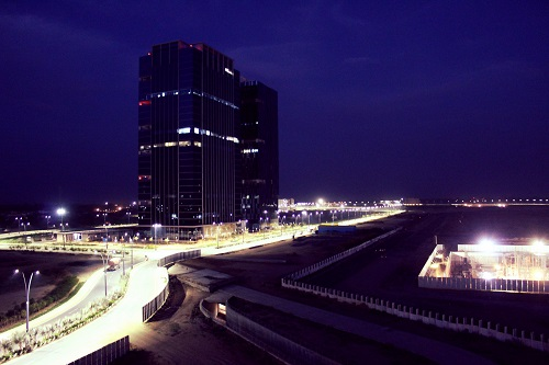 Gift City, Gandhinagar, Gujarat